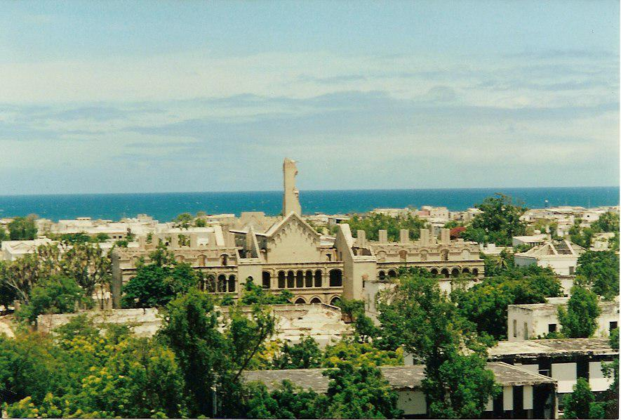 Ruins of a cathedral in Mogadishu.